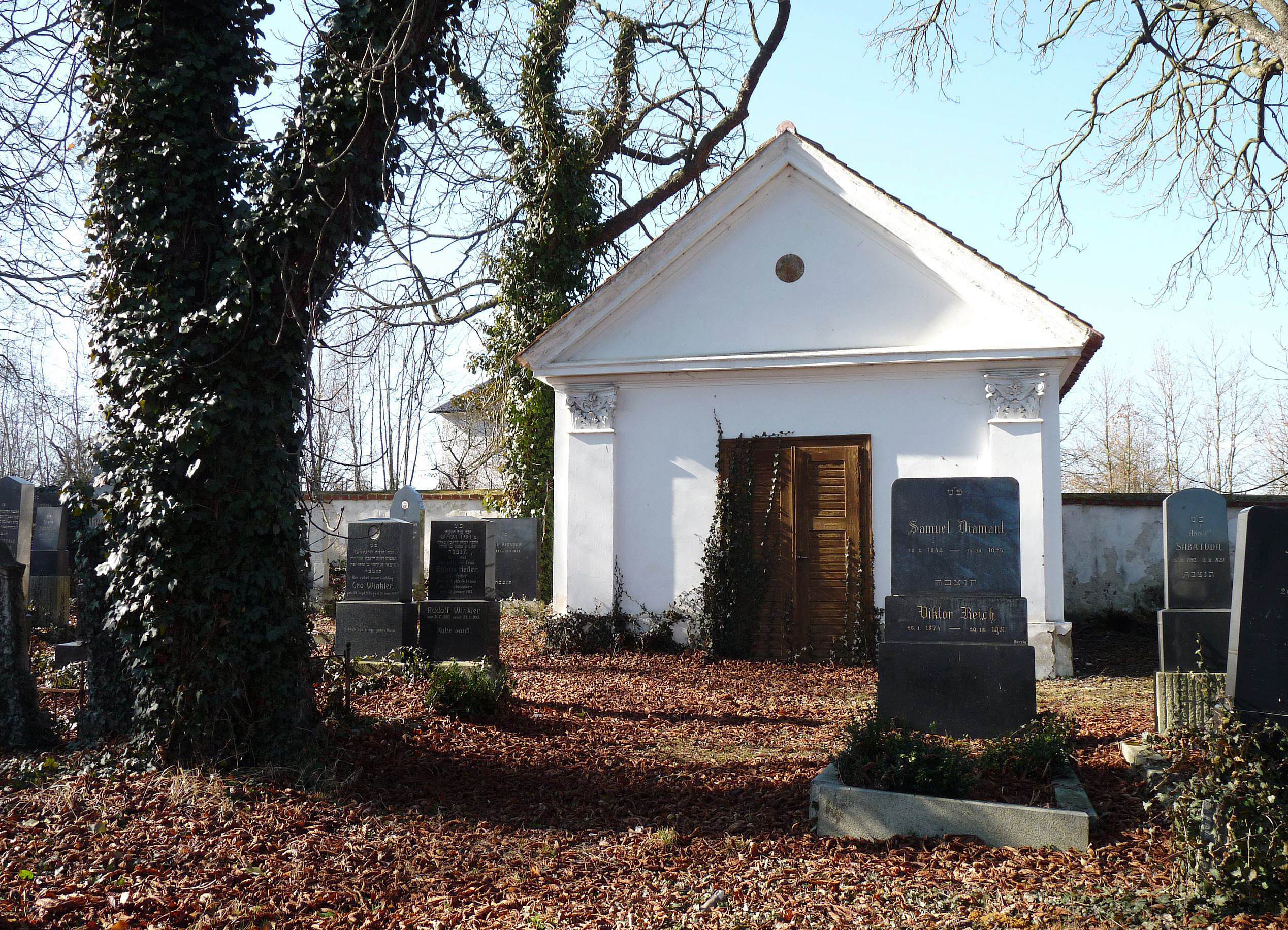 Jewish cemetery at the town of Strakonice, South Bohemian Region, Czech Republic - morgue